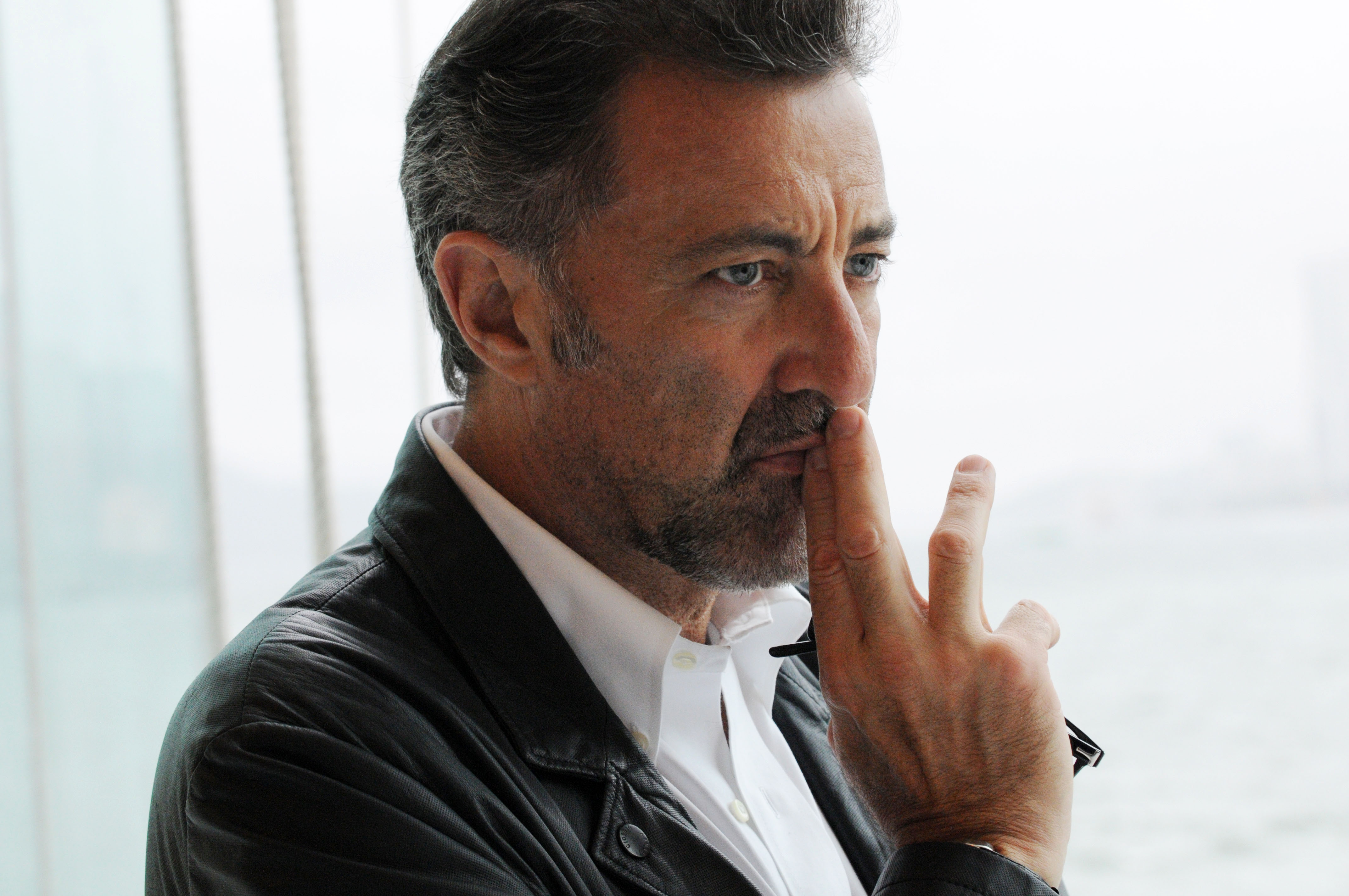 Luca Barbareschi in Something Good